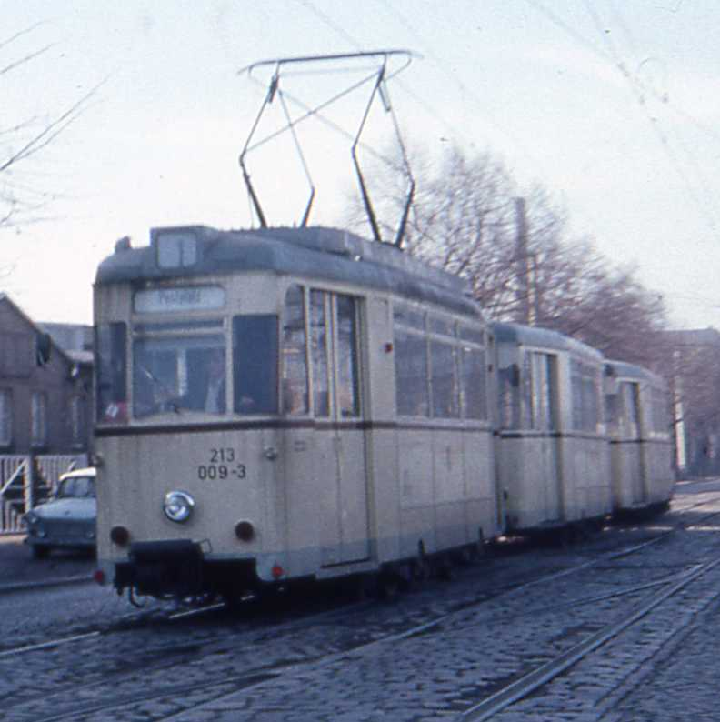 The Berlin Wall has been broached for about 36 hours, but all is quiet in Dresden on this Saturday morning. Old Gotha trams were still operating on Route 1 , but unfortunately the only one we met was in shade. What is that car on the left? ( PS :answer below) Motor Car 213 009-3 is running into the city en route for Postplatz with 2 trailers. 16 normal Gauge Gotha T57s dating from 1959 were acquired from Karl-Marx-Stadt (Chemnitz today) when it abandoned this type . 009 is one such. They are double ended, with the motor car running round the trailers at the termini. Just over a year later, on 2 December 1990, the Gotha trams were taken our of service in Dresden when this section of route to Cossebaude route was abandoned beyond Cotta and replaced by bus service no 94. Taken on Kodak slide film with a Olympus XA compact 35mm camera. Probably in Meissner Landstrasse.